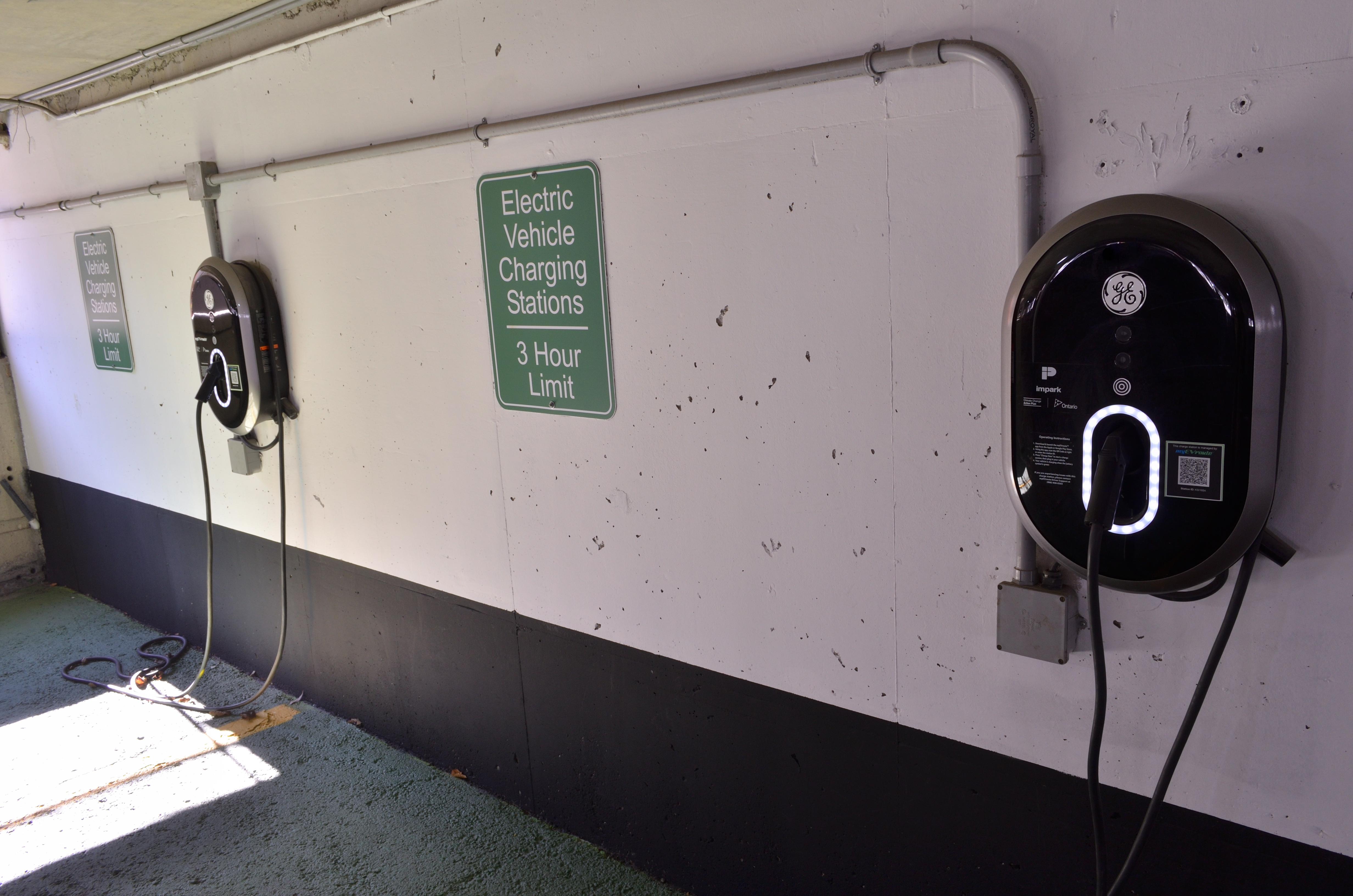 Impark EV charging stations in Richmond Hill, ON